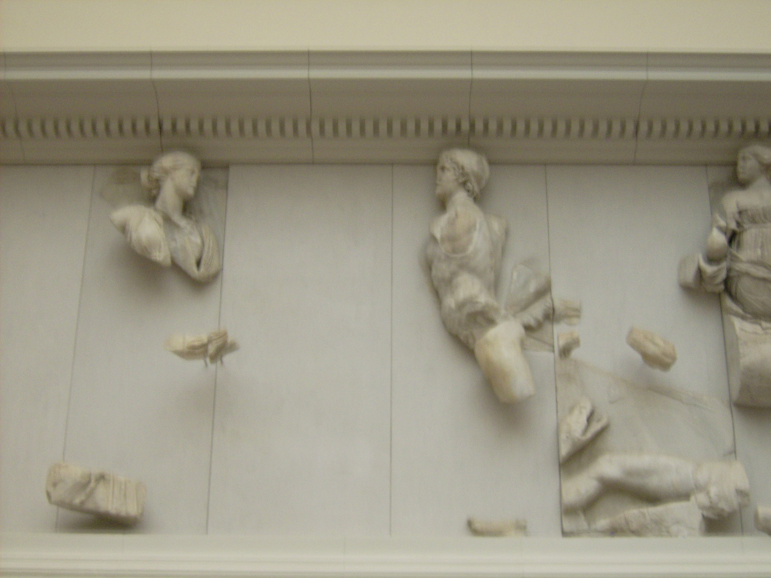 Theia